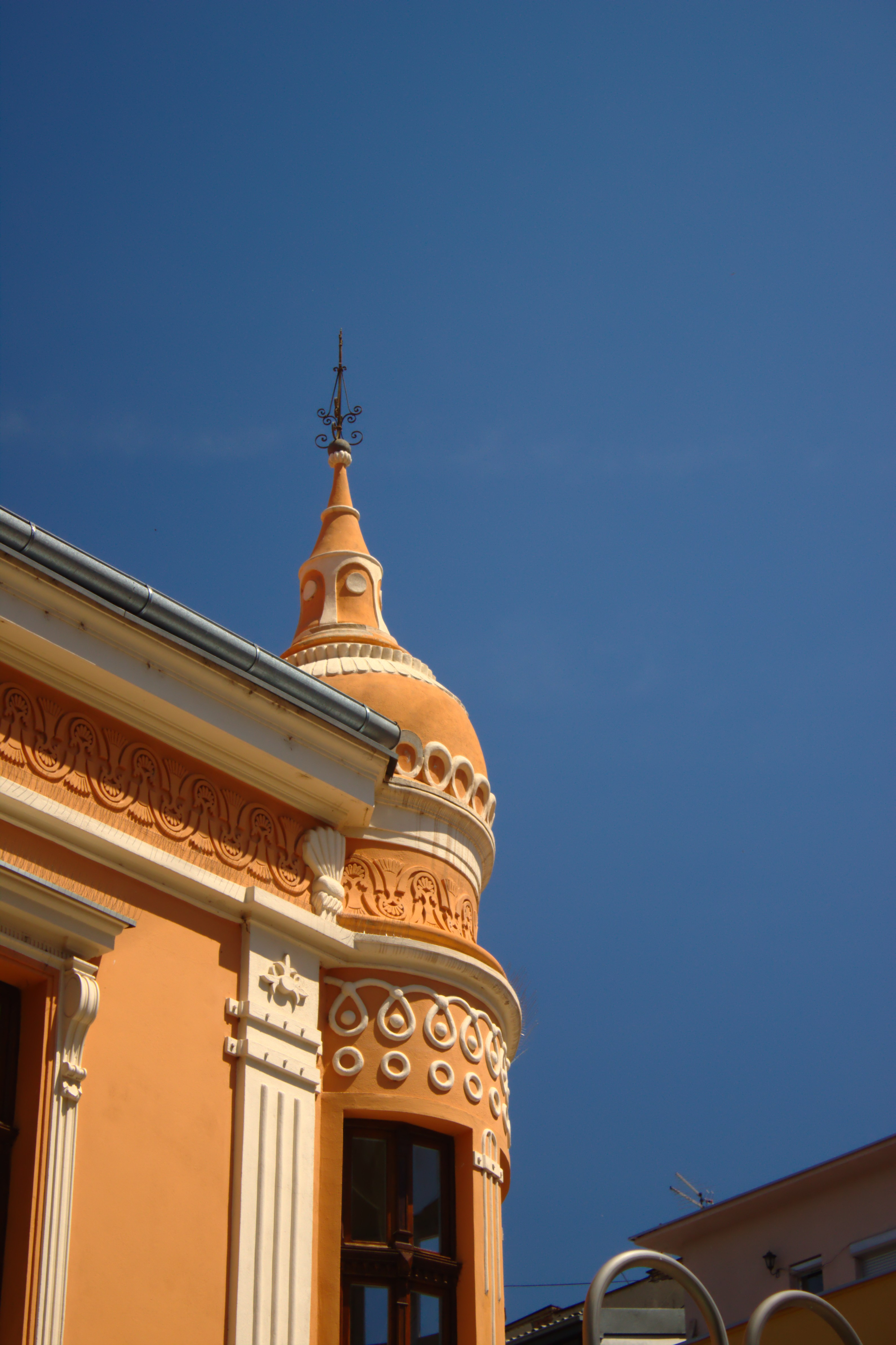 Corner of the main street and some shorter one in the very center of the city of Niš, Serbia